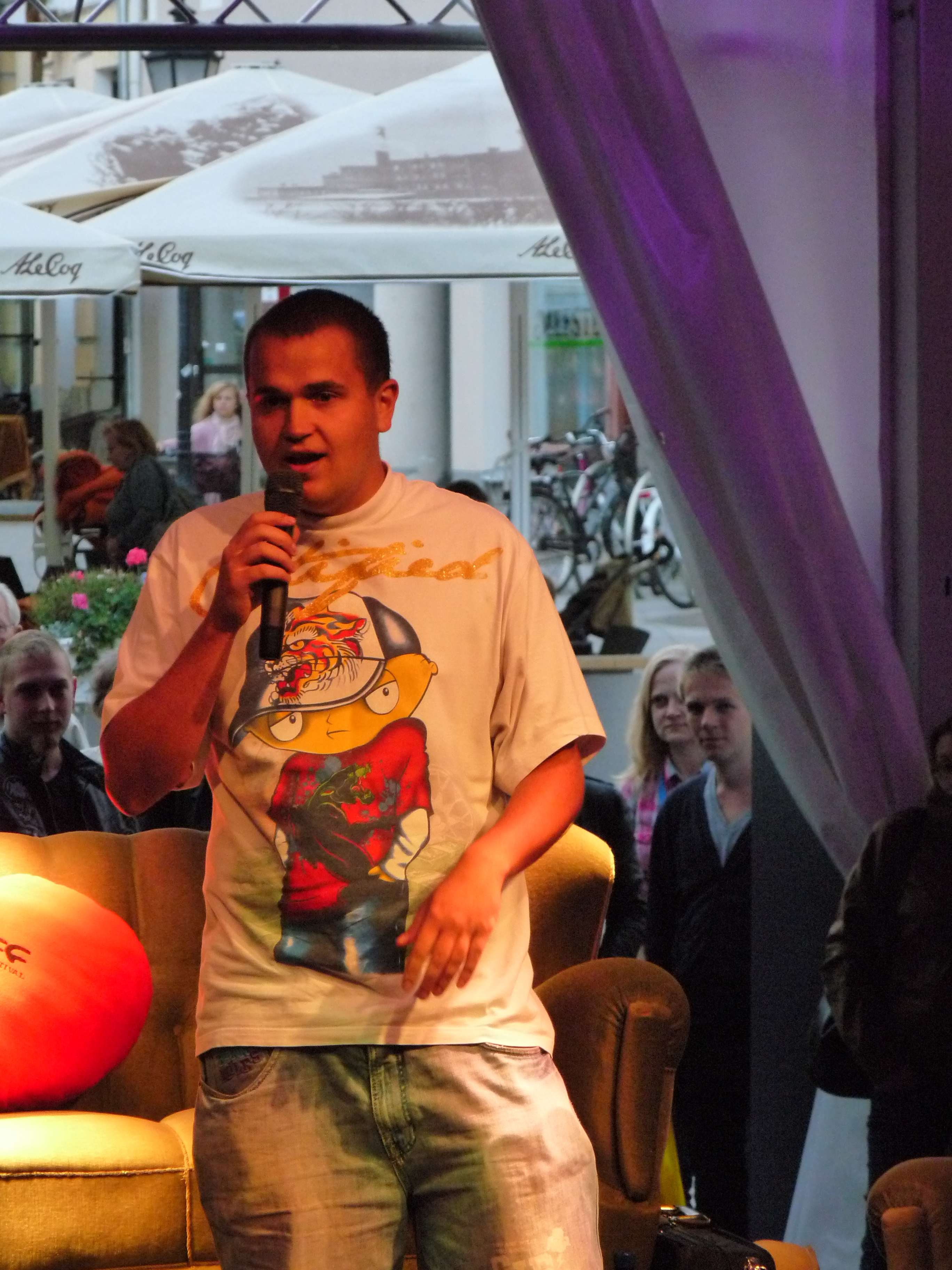 Estonian stand-up comedian Sander Õigus performing on the film festival tARTuFF in Tartu, on Raekoja plats, on August 9, 2012. Photo: User:Oop.